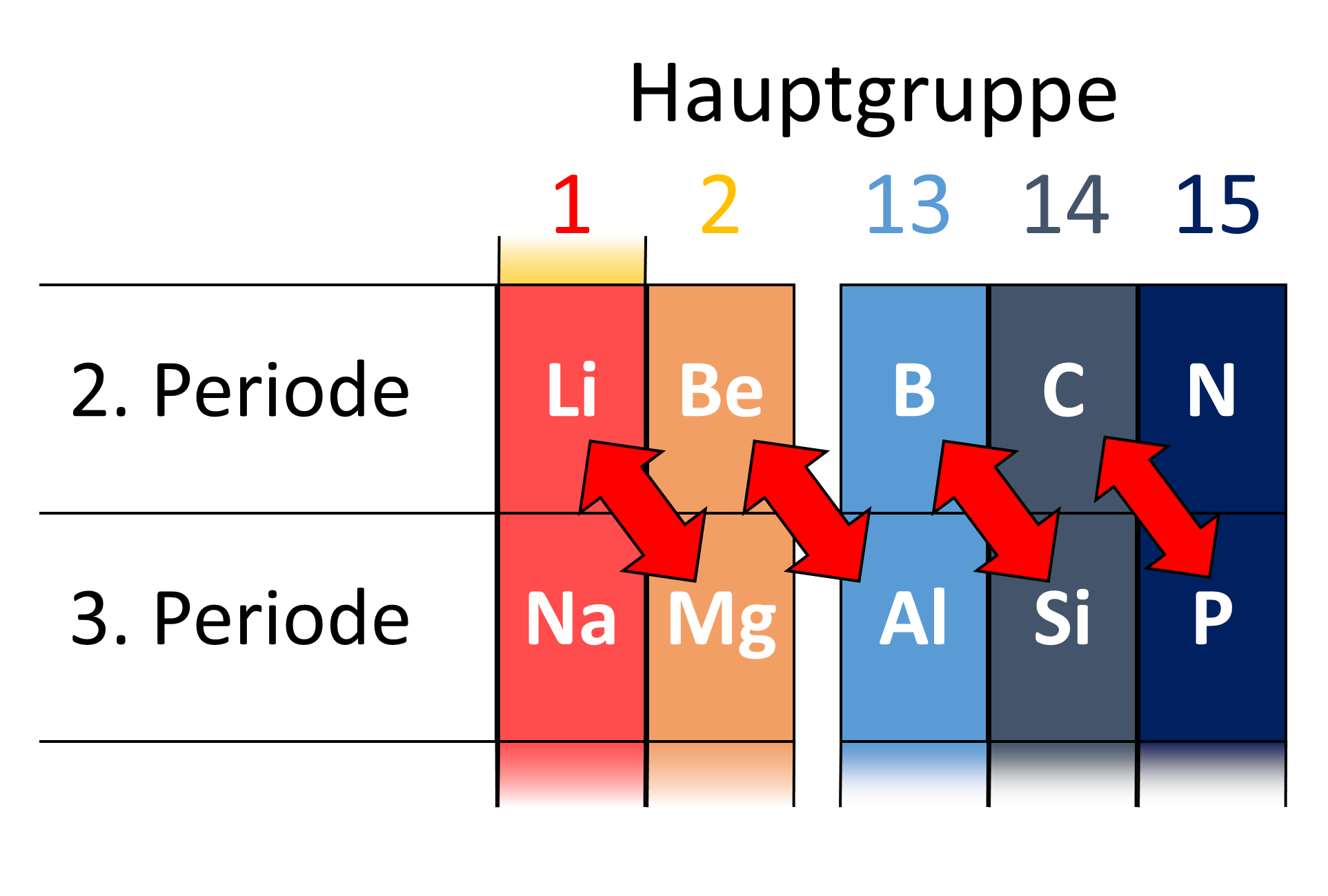 Examples of diagonal relationships. German version.